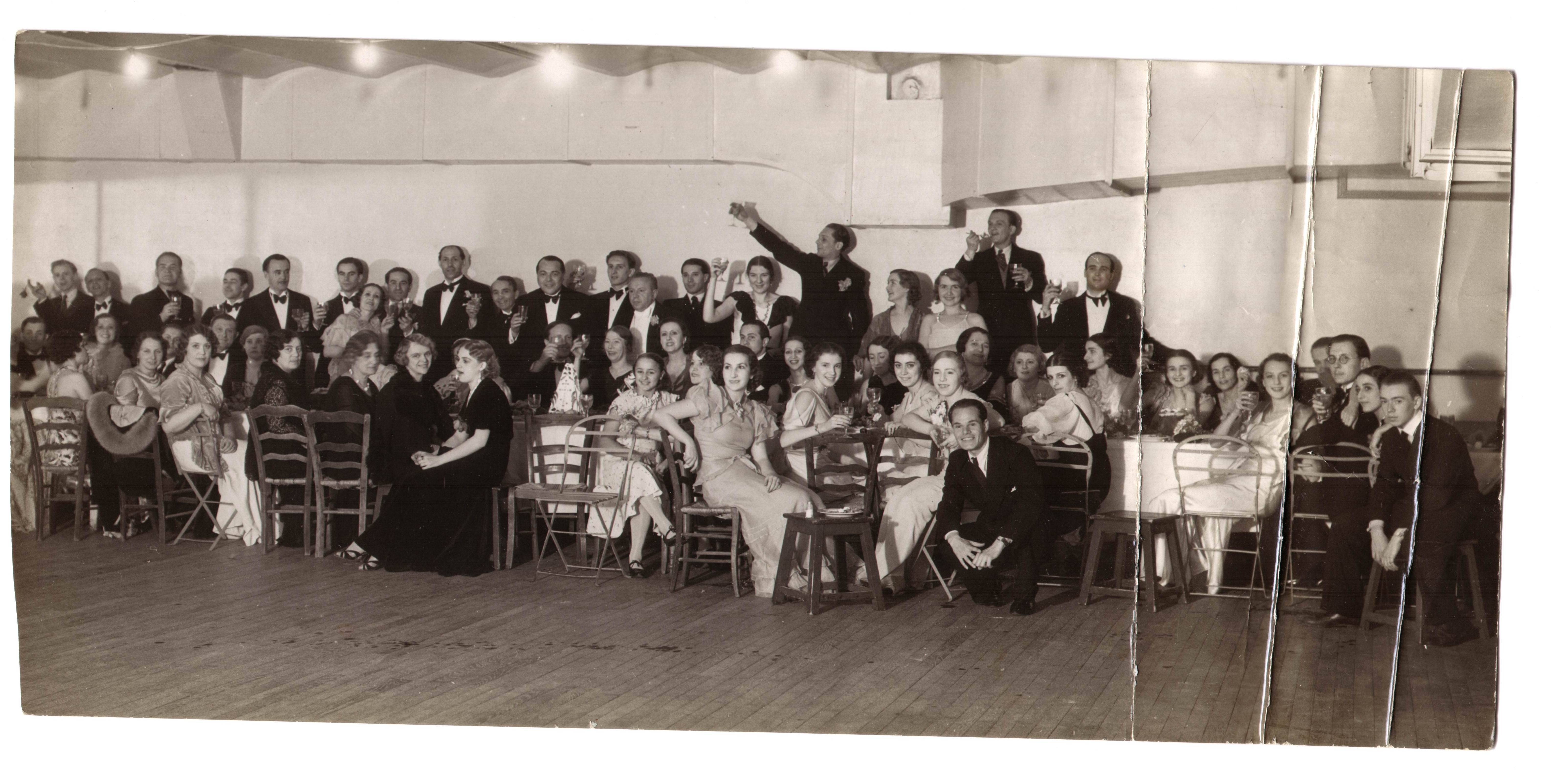 Bronislava Nijinska raises her glass near a pyramidal table decoration at center. René Blum sits to her right (viewer left). Nijinska's daughter, Irina, sits behind the man crouching on the floor. Nijinska's son, Leo Kotchetovsky, sits at the far right with his hands between his knees.